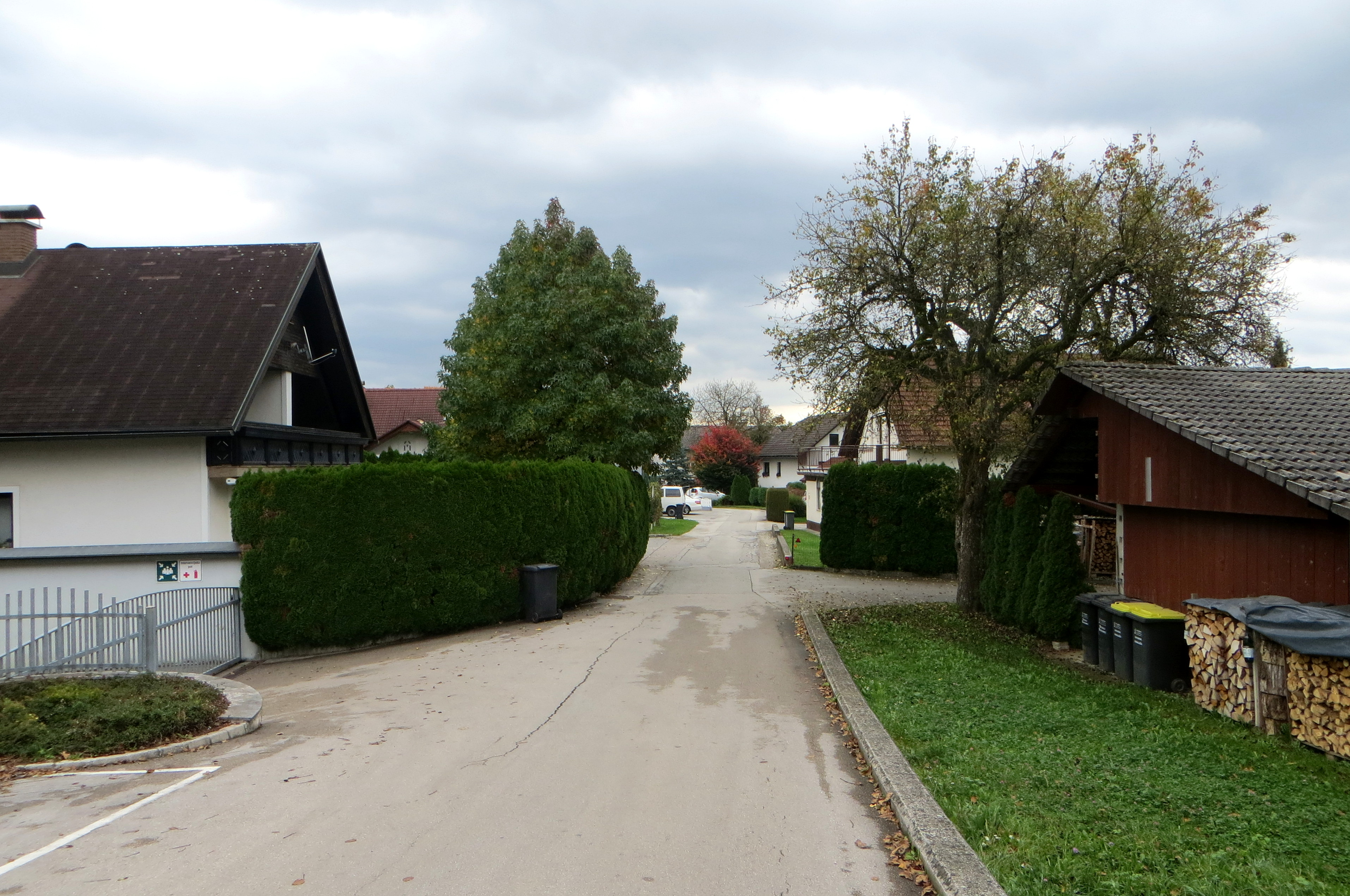 Grenc, Municipality of Škofja Loka, Slovenia